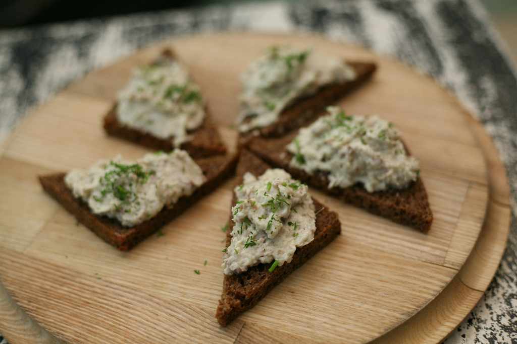 Vorschmack, Ukrainian-Jewish style appetizer, served on rye bread. Photo made in an Odessa restaurant.